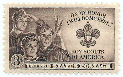 Boy Scouts of America Issue - June 30, 1950 131,635,000 issued - Commemorative BSA stamp first issued by the U.S. in 1950: Designer: C. R. Chickering - Engraver: C. A. Brooks